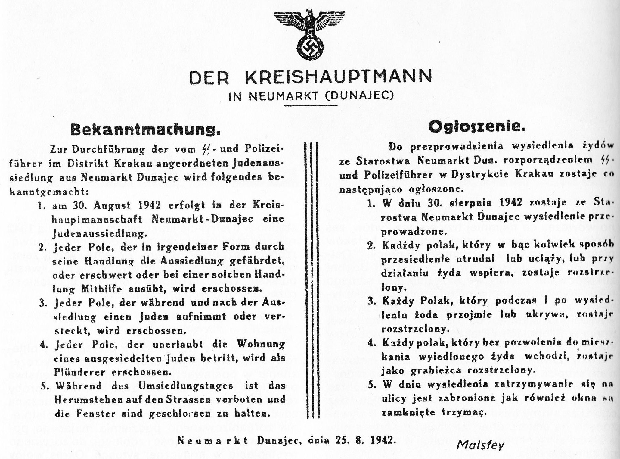 Announcent of the resettlement of the Jews from Nowy Targ (Neumarkt) district (to the Bełżec death camp)